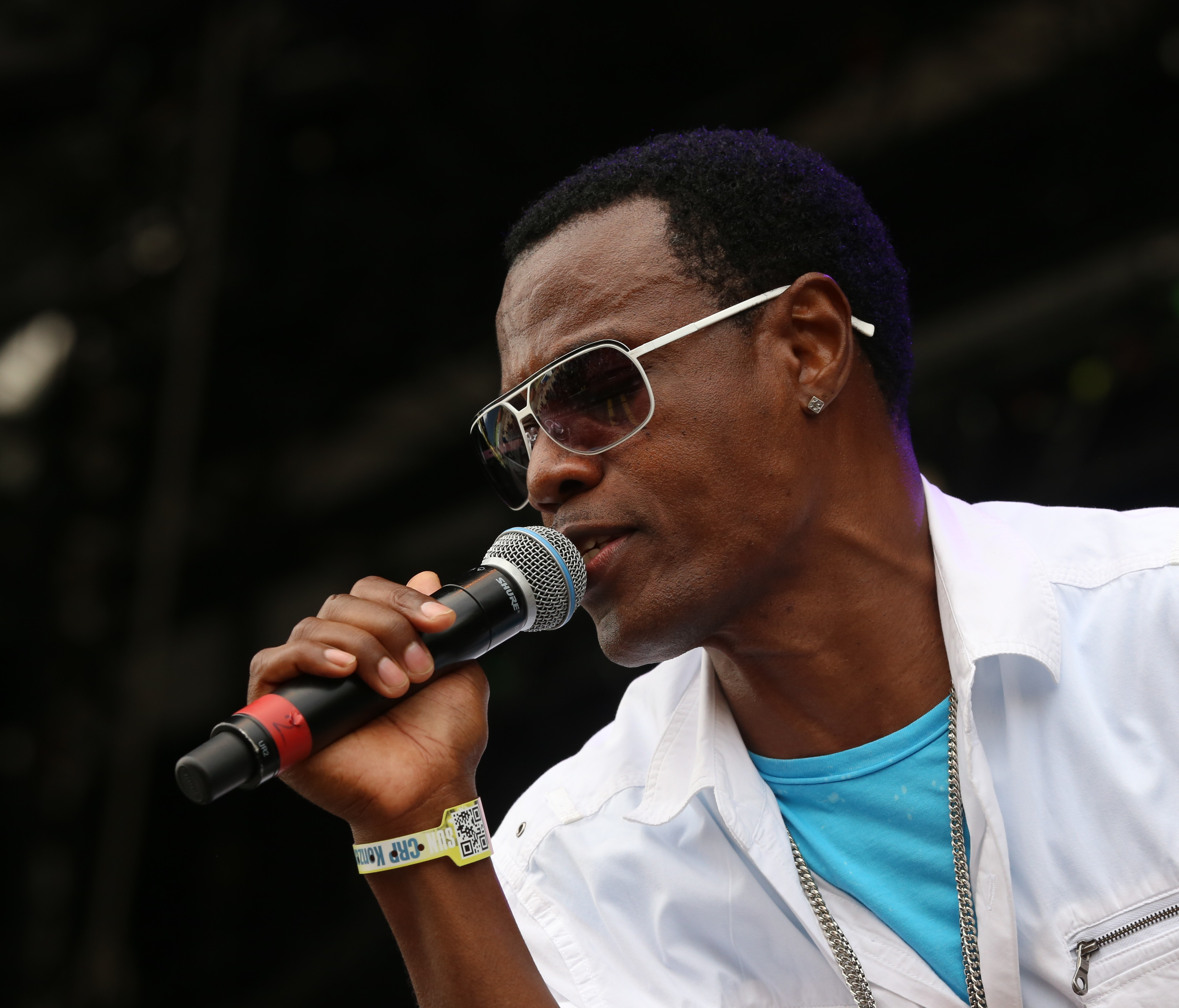 Wayne Wonder at Chiemsee Reggae Summer Festival 2013